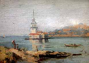 Kizkulesi (Maiden's Tower), Hoca Ali Riza (1858-1930) Source URL